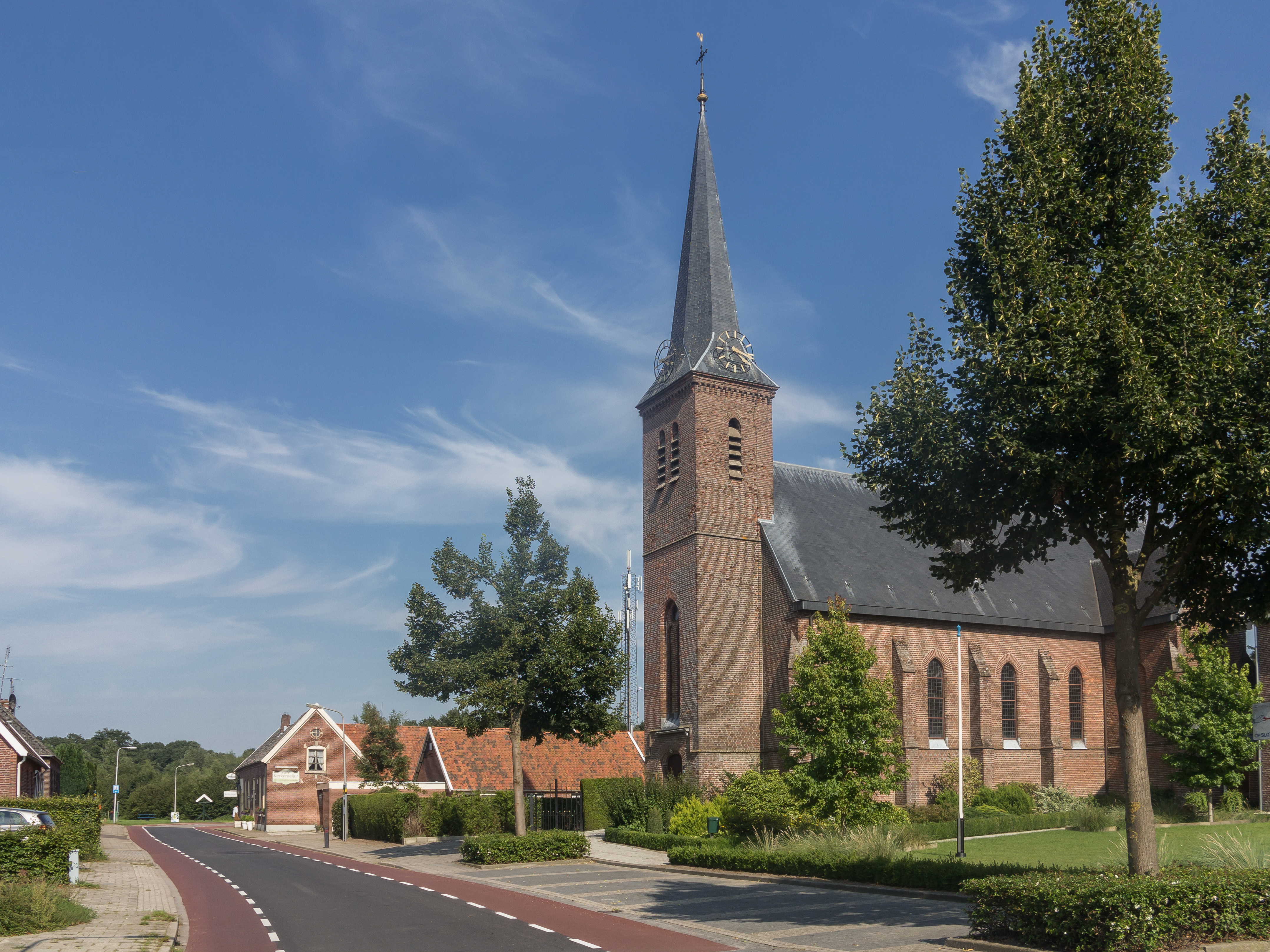 Rekken, catholic church: de Martelaren van Gorcum 150